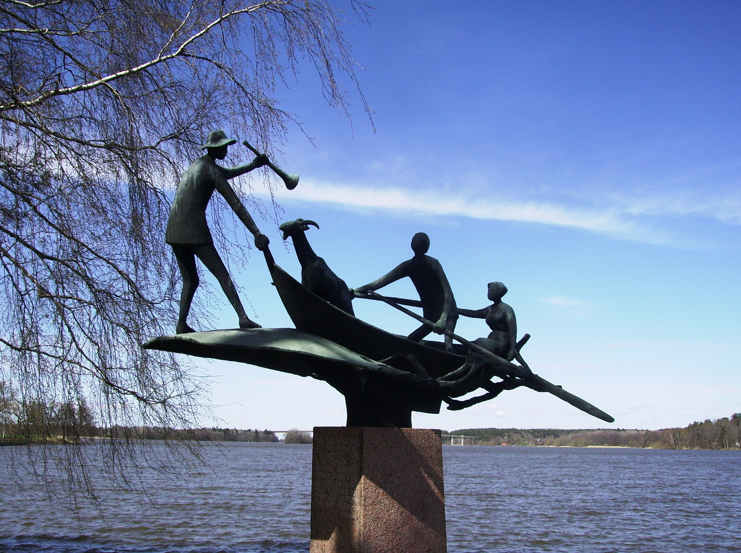 Picture of statue in rememberence of the Swedish medieval Eriksgata in Strängnäs